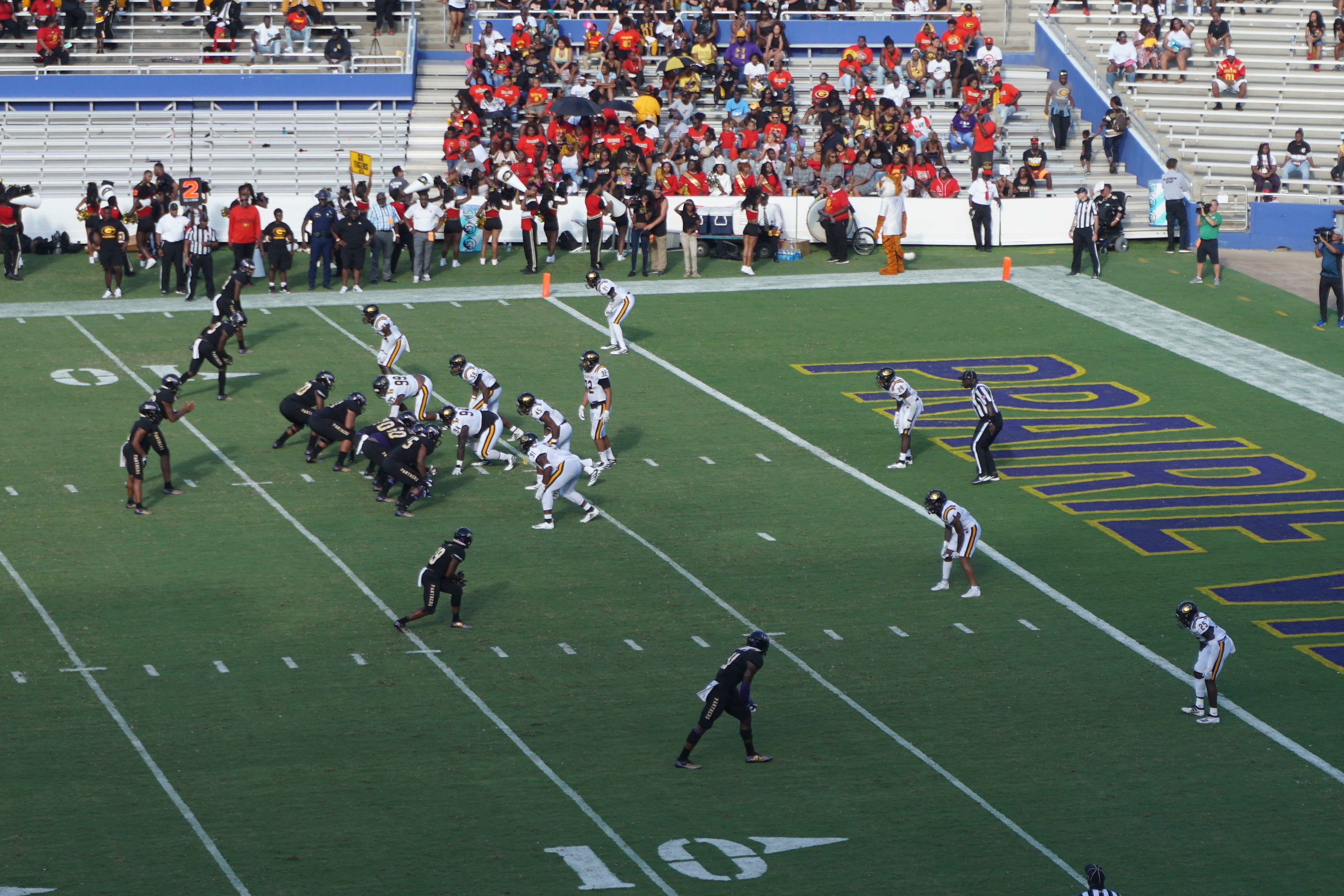 Prairie View on offense during the 2019 State Fair Classic (Grambling State Tigers vs. Prairie View A&M Panthers) at the Cotton Bowl in Dallas, Texas (United States). Prairie View won 42–36.